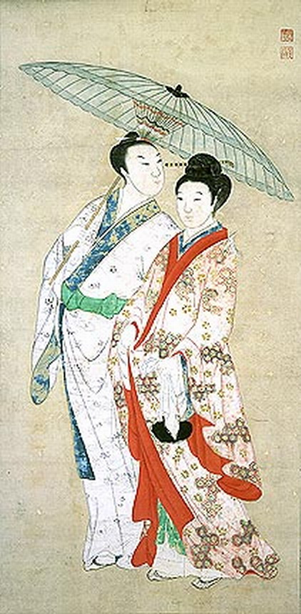 This painting is at the Okinawa Prefectural Museum. Artist Kantoku Izumigawa, third son of the Great Artist Kanyei Izumigawa (1768-1844) of the Ryukyu Kingdom, and a chikudon samurai.